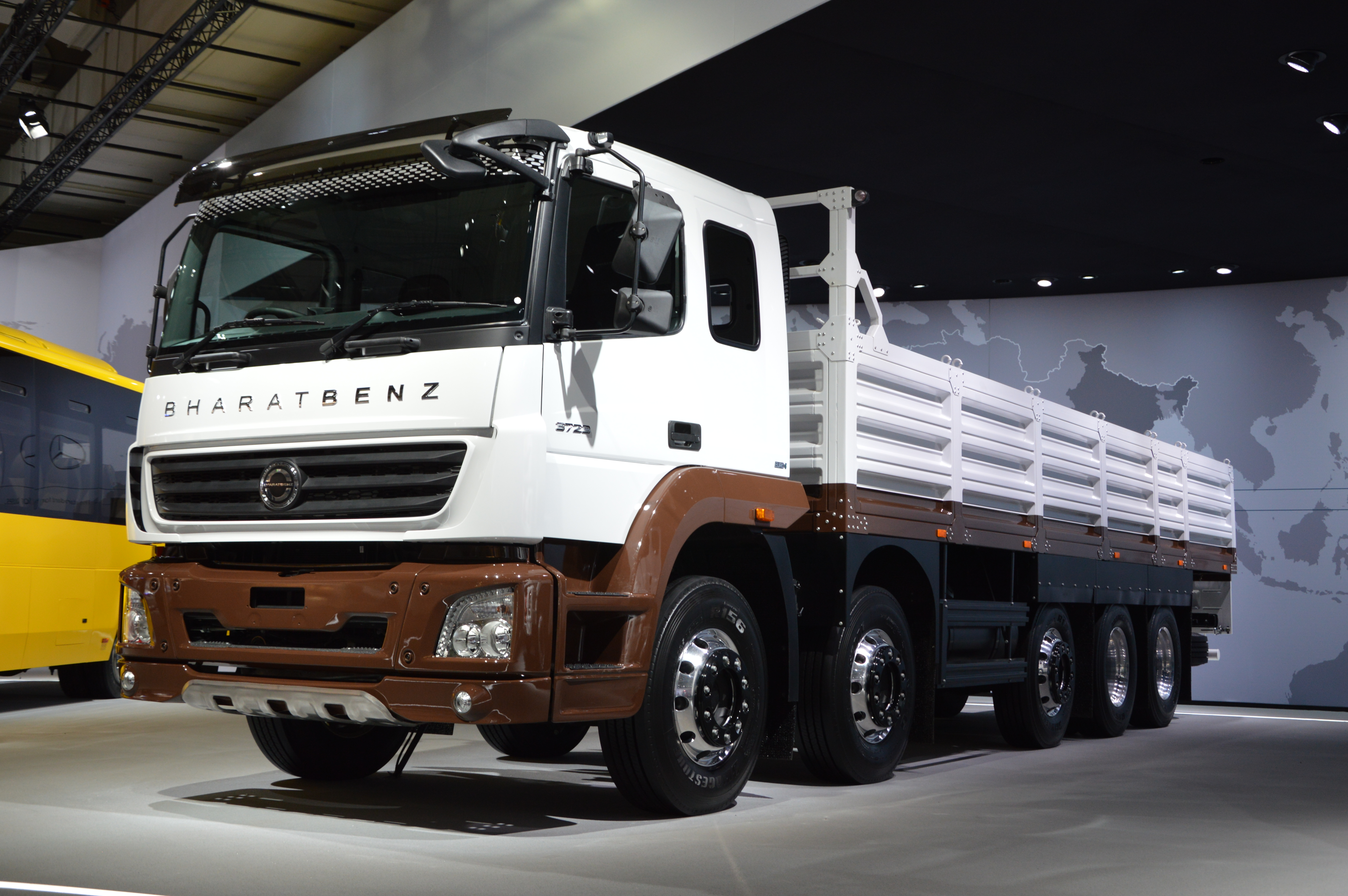 BharatBenz truck 3723 at IAA 2016.